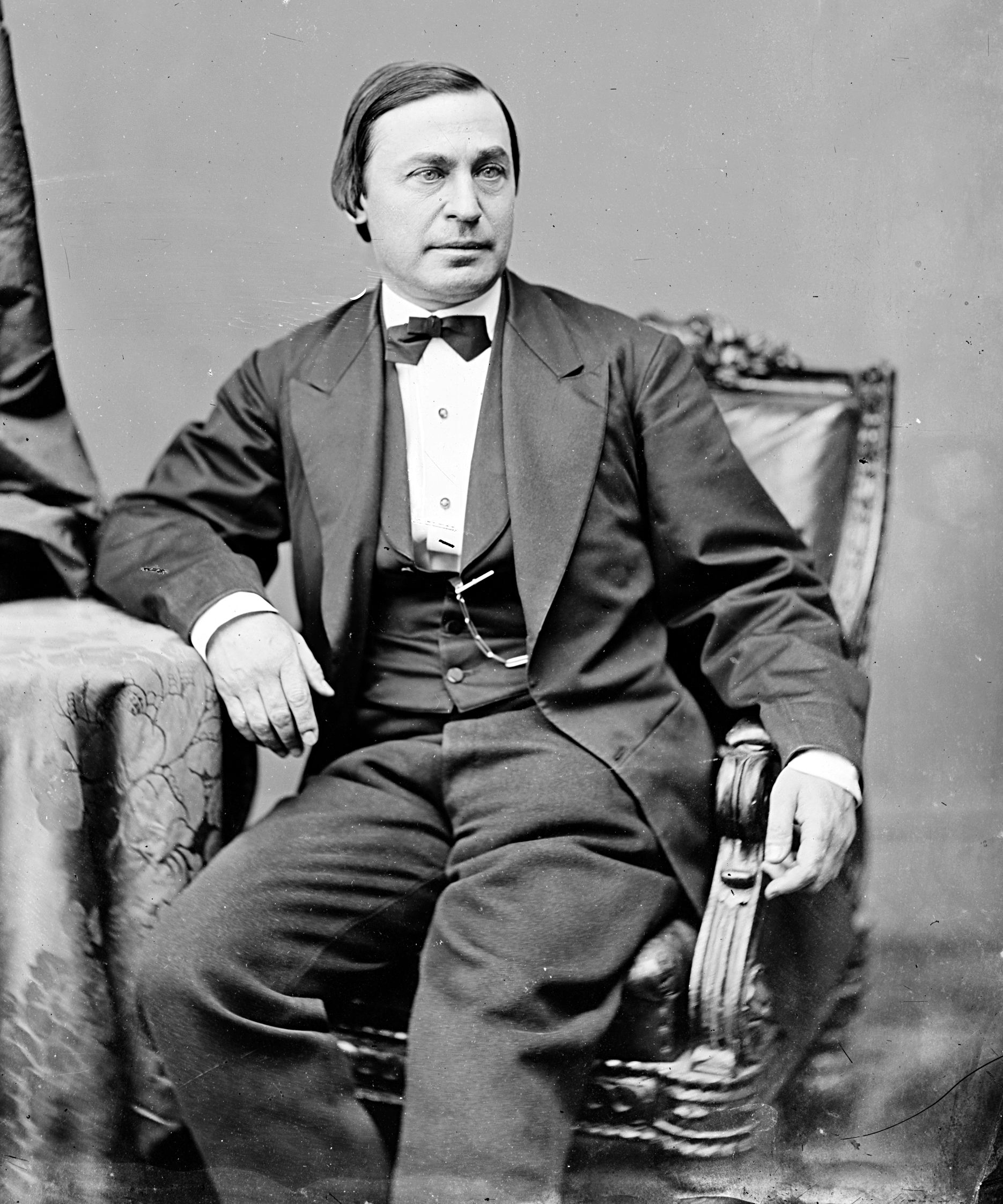 James Lawrence Getz, US Representative from Pennsylvania